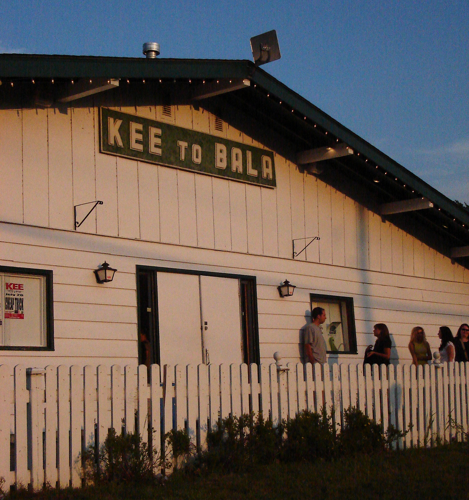 Concertgoers lining up outside the entrance to the Kee to Bala, a well known dancehall in Bala, Ontario.